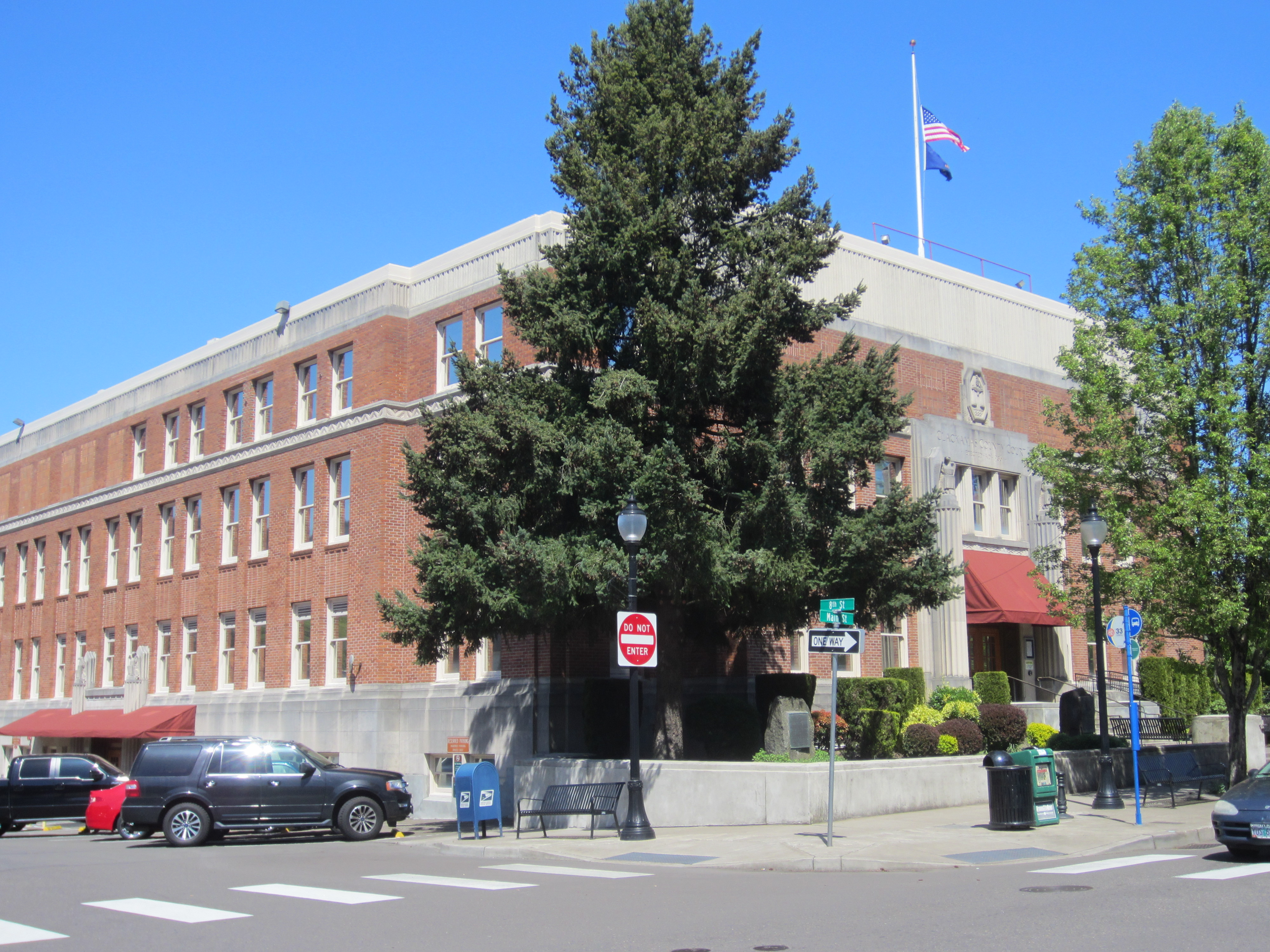 Oregon City, Oregon (April 2018)